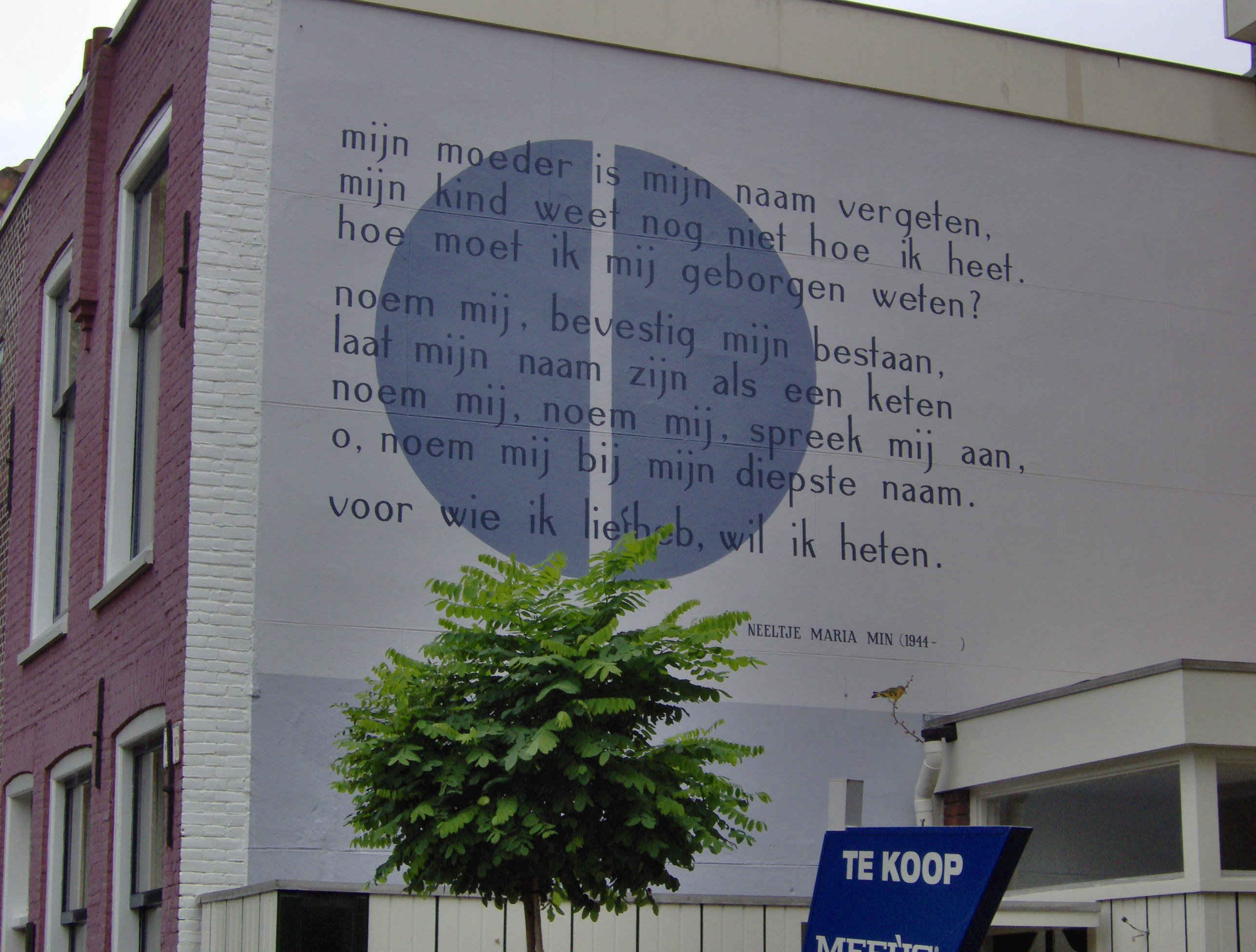 The poem Mijn moeder is mijn naam vergeten (My mother forgot my name) of the Dutch poet Neeltje Maria Min (1944) on a wall of the building at the Rijn- en Schiekade 74 in Leiden, The Netherlands